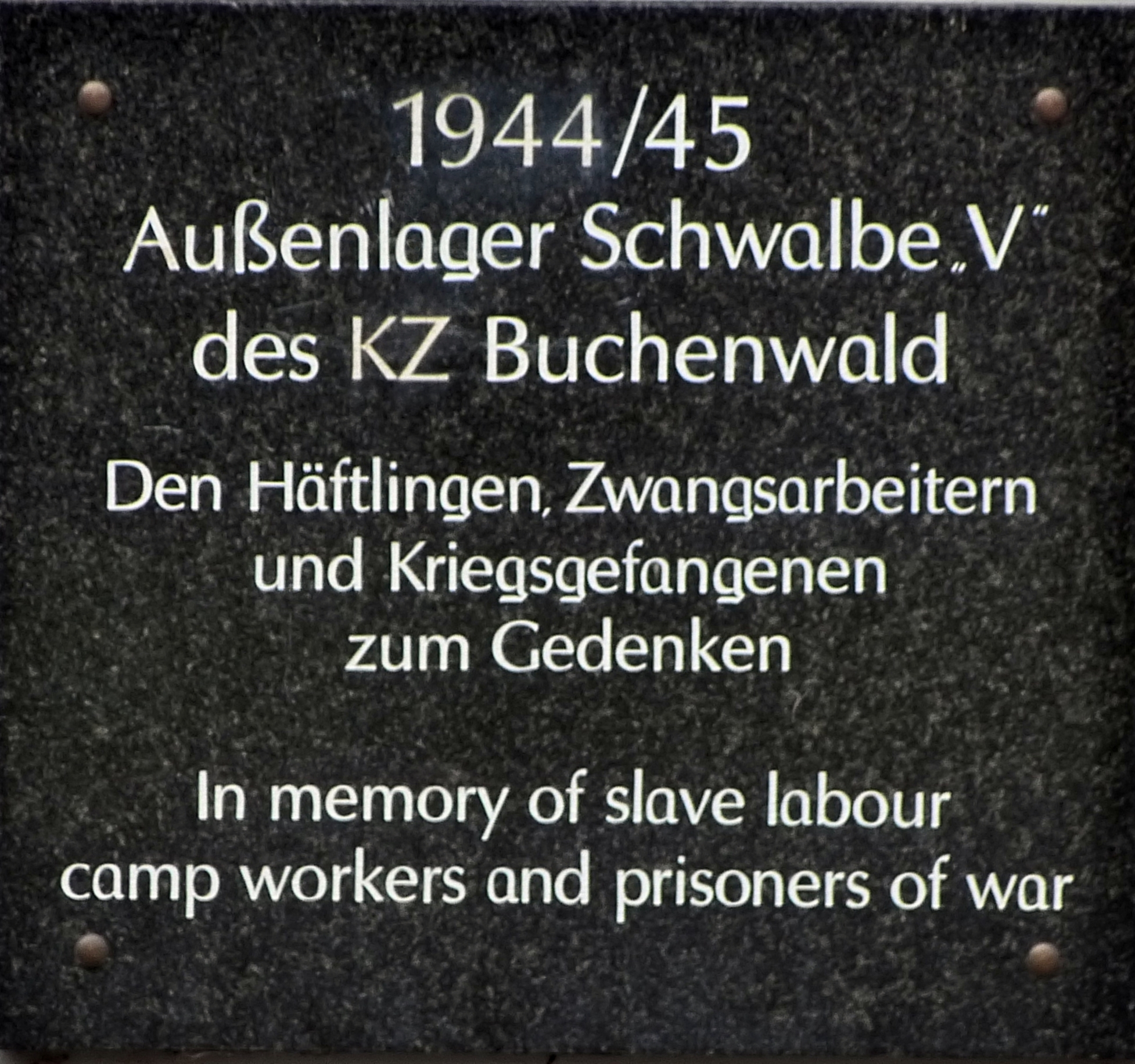 Memorial plaque subcamp of the Buchenwald concentration camp in Berga / Elster (September 1944-April 1945)